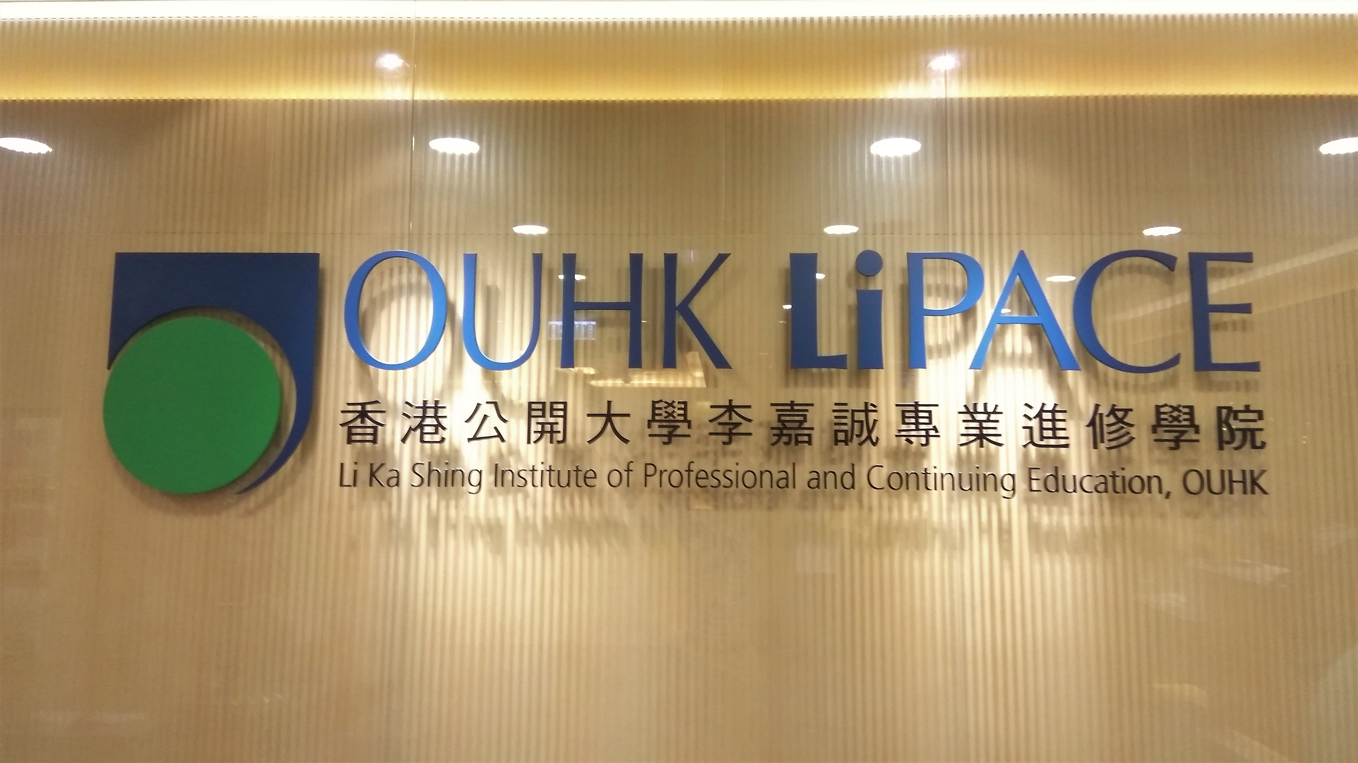 OUHK LiPACE's Panel at Kwai Hing Campus.